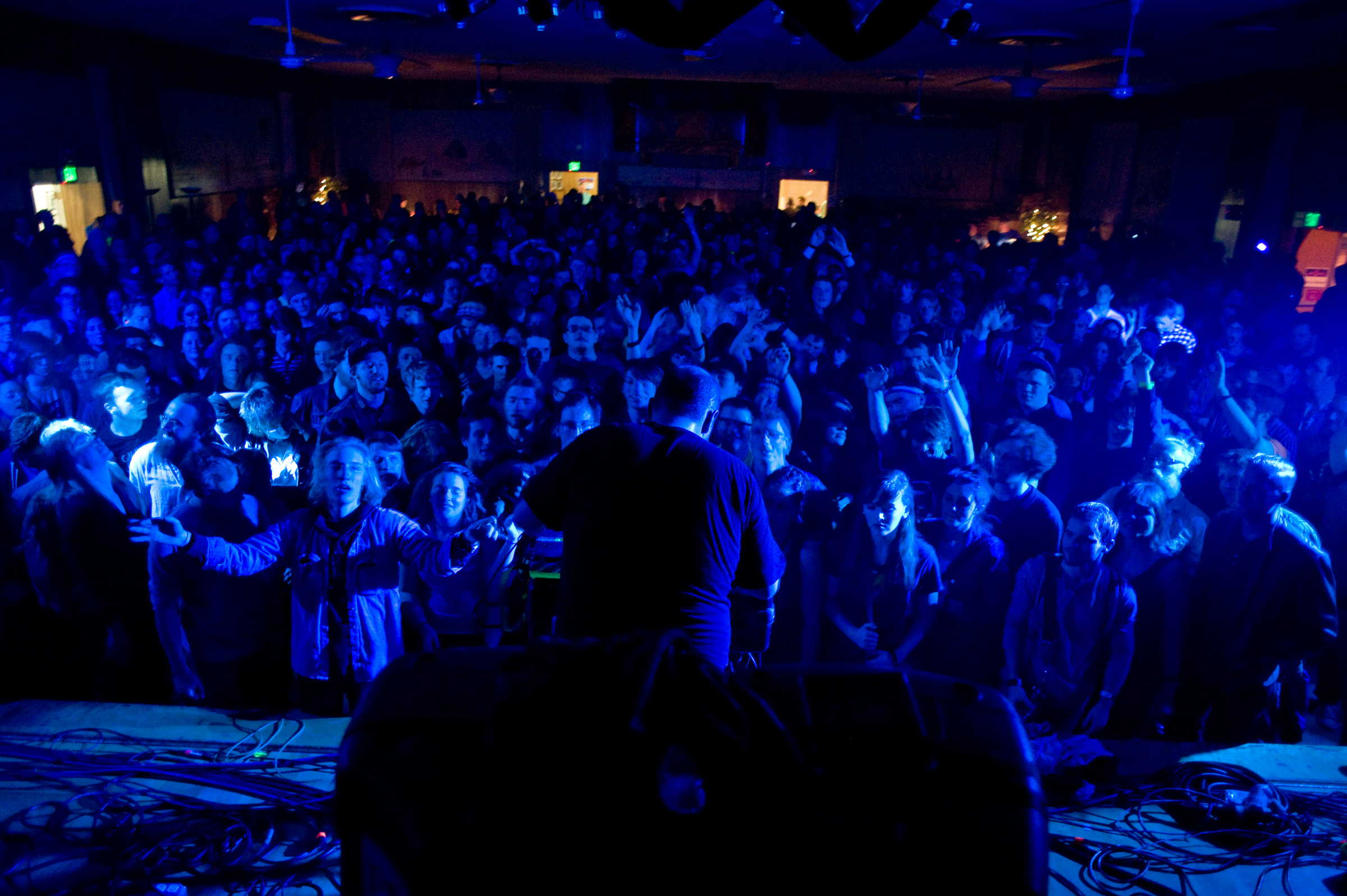 Dan Deacon performs at the third annual Treefort Music Fest at the El Korah Shrine in Boise, Idaho.